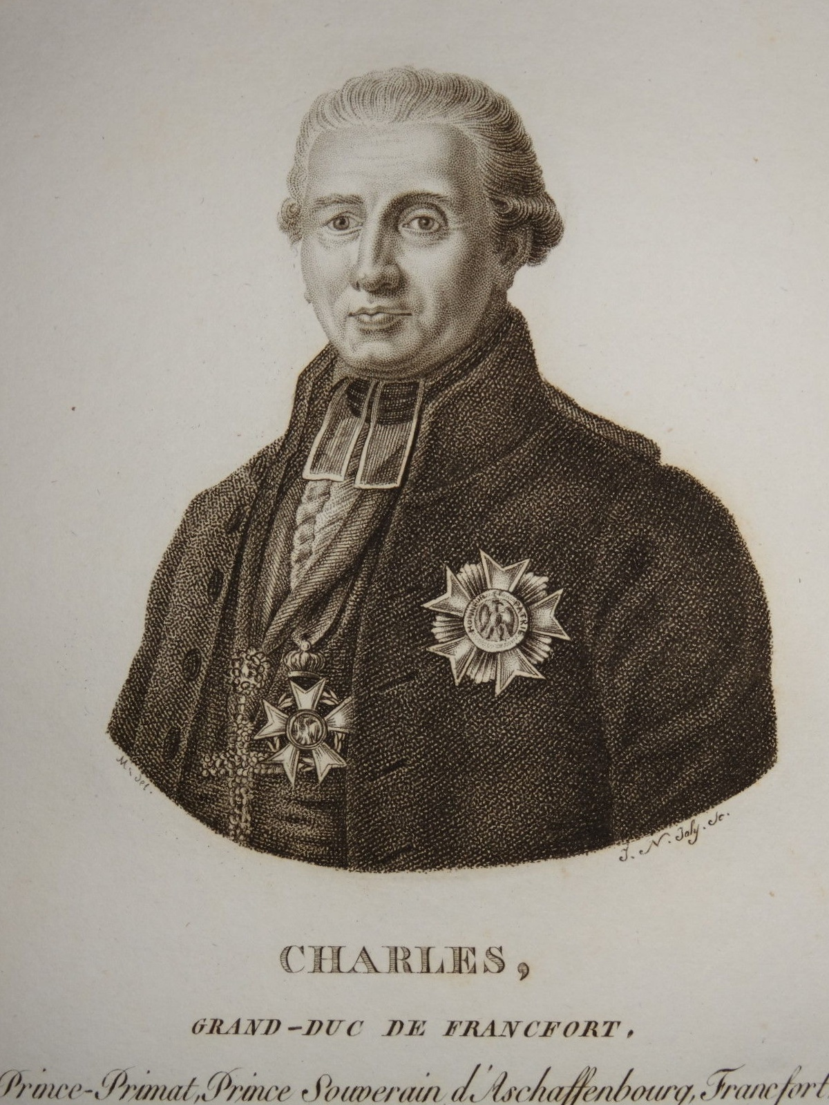 Engraving showing Karl Theodor von Dalberg, then Grand Duke of Frankfurt. The ephemeral Grand Duchy of Frankfurt was a Napoleonic puppet state. The French-language caption reads (trans.) : Karl, Grand Duke of Frankfurt, Archbishop, Prince Primate, Sovereign Prince of Aschaffenburg, Frankfurt, Fulda, etc. Grand-Aigle of the Legion of Honour. Born 8 February 1744. Printed in Paris between 1810 and 1813.